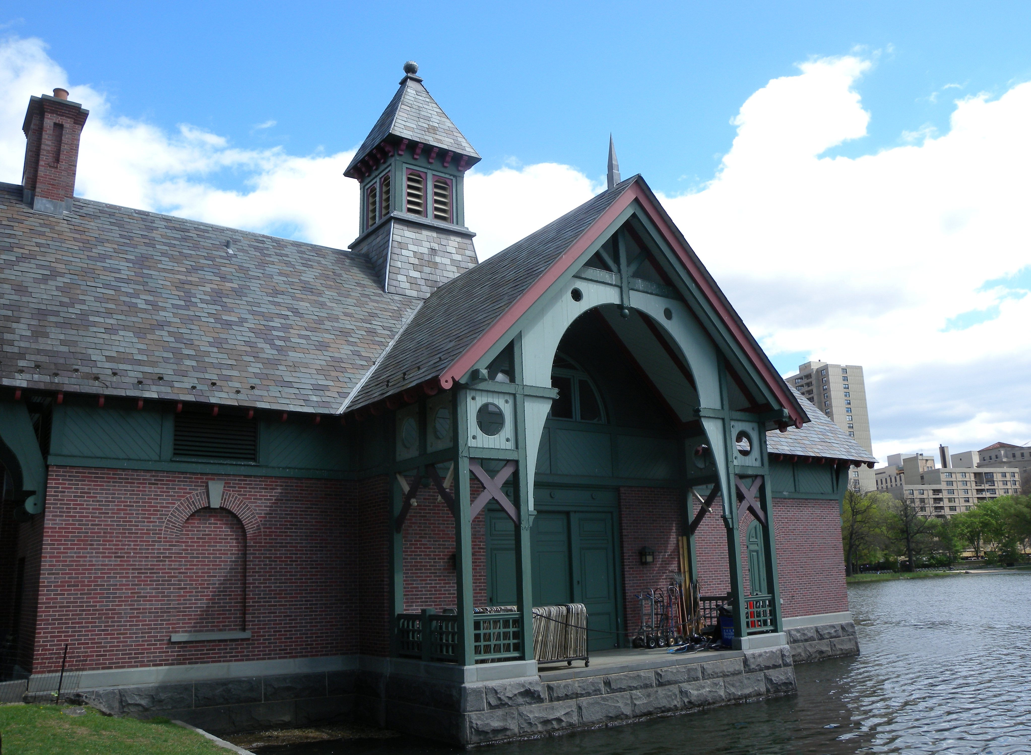 Looking southeast at Dana Discovery Center on a sunny afternoon.